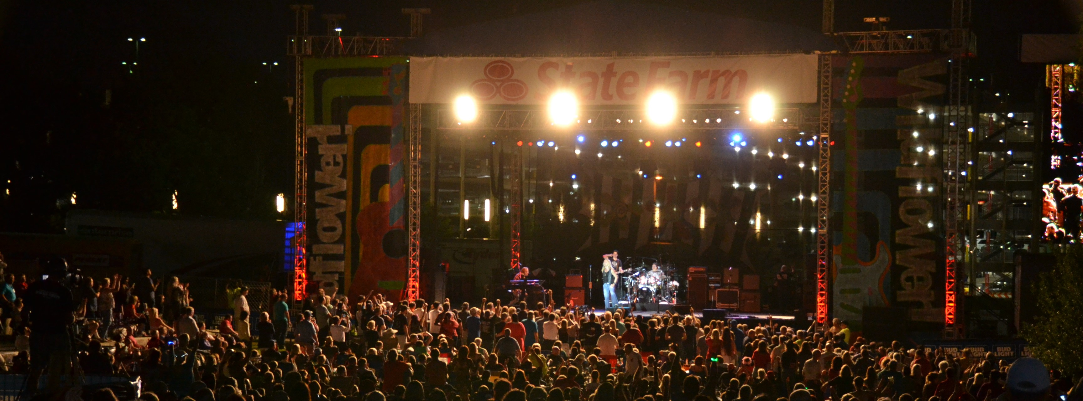 State Farm Amphitheater Stage at Wildflower! Arts and Music Festival #wamfest2016 #wamfest photo credit The League Lady